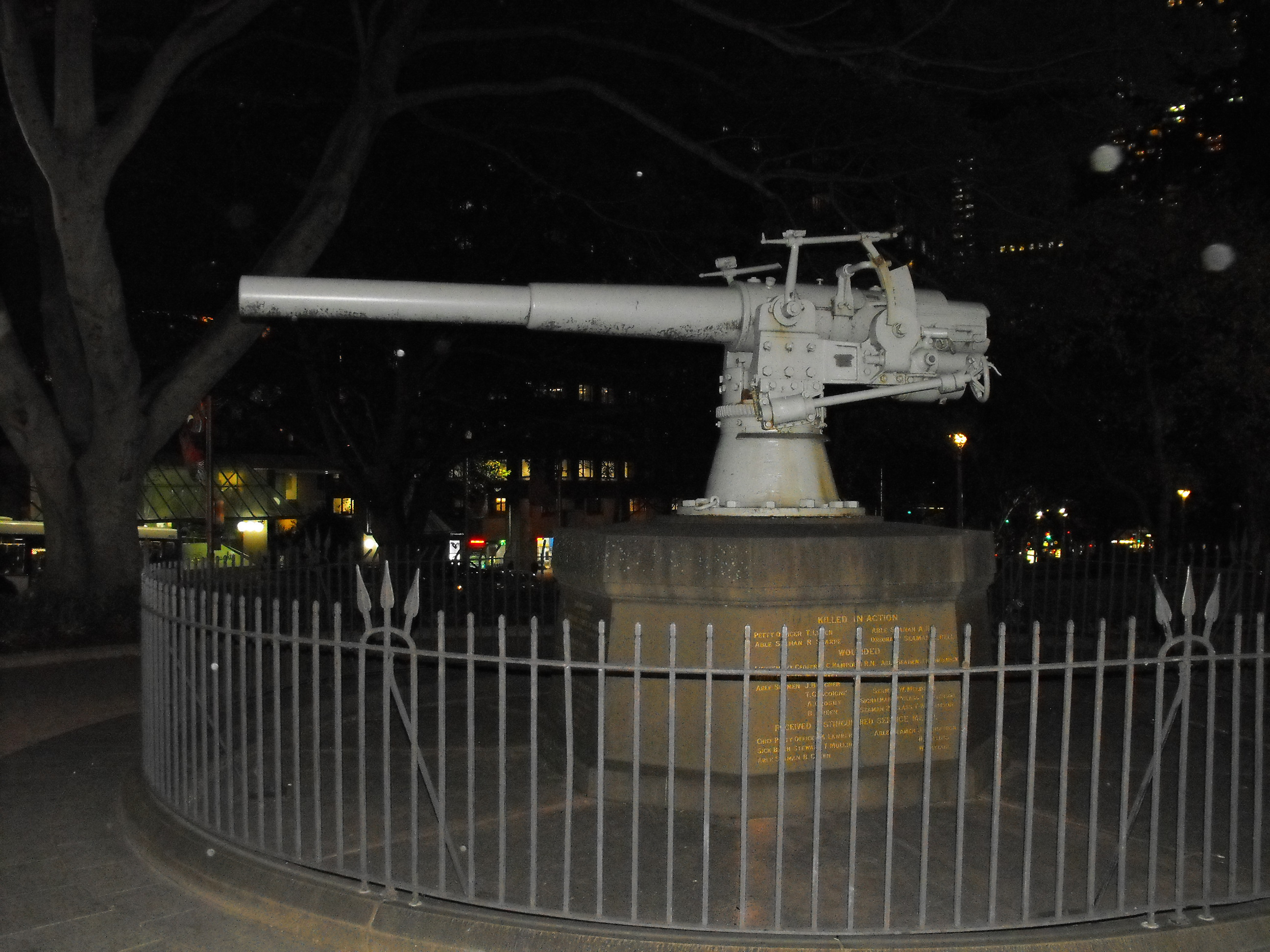 A 10.5 cm/40 SK L/40 naval gun from the German cruiser Emden, on display as part of a war memorial in Hyde Park, Sydney